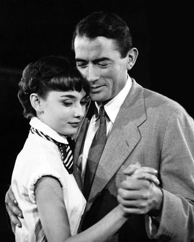 Promotional photo of Audrey Hepburn and Gregory Peck in the American romantic comedy film Roman Holiday (1953).